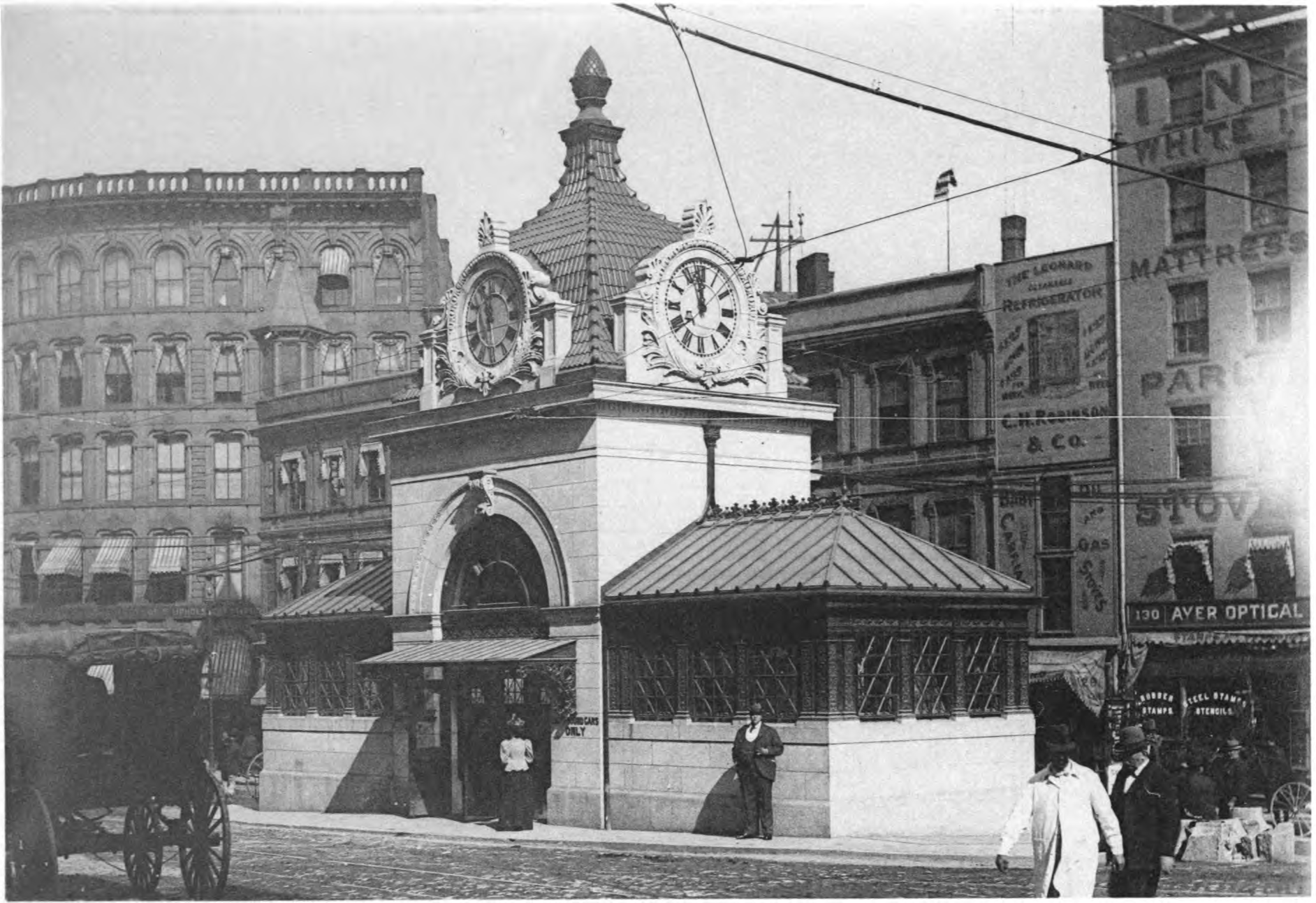 Headhouse to Adams Square station, photographed in 1898. Original description: STAIRWAY BUILDING, ADAMS-SQUARE STATION (LOOKING NORTHEAST).